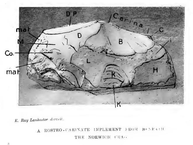 An annotated picture of the Norwich Test Specimen, a supposed 'rostro-carinate' flint artefact found in the Norwich Crag basement bed at Whitlingham, Norfolk; claimed to be of Pliocene age.